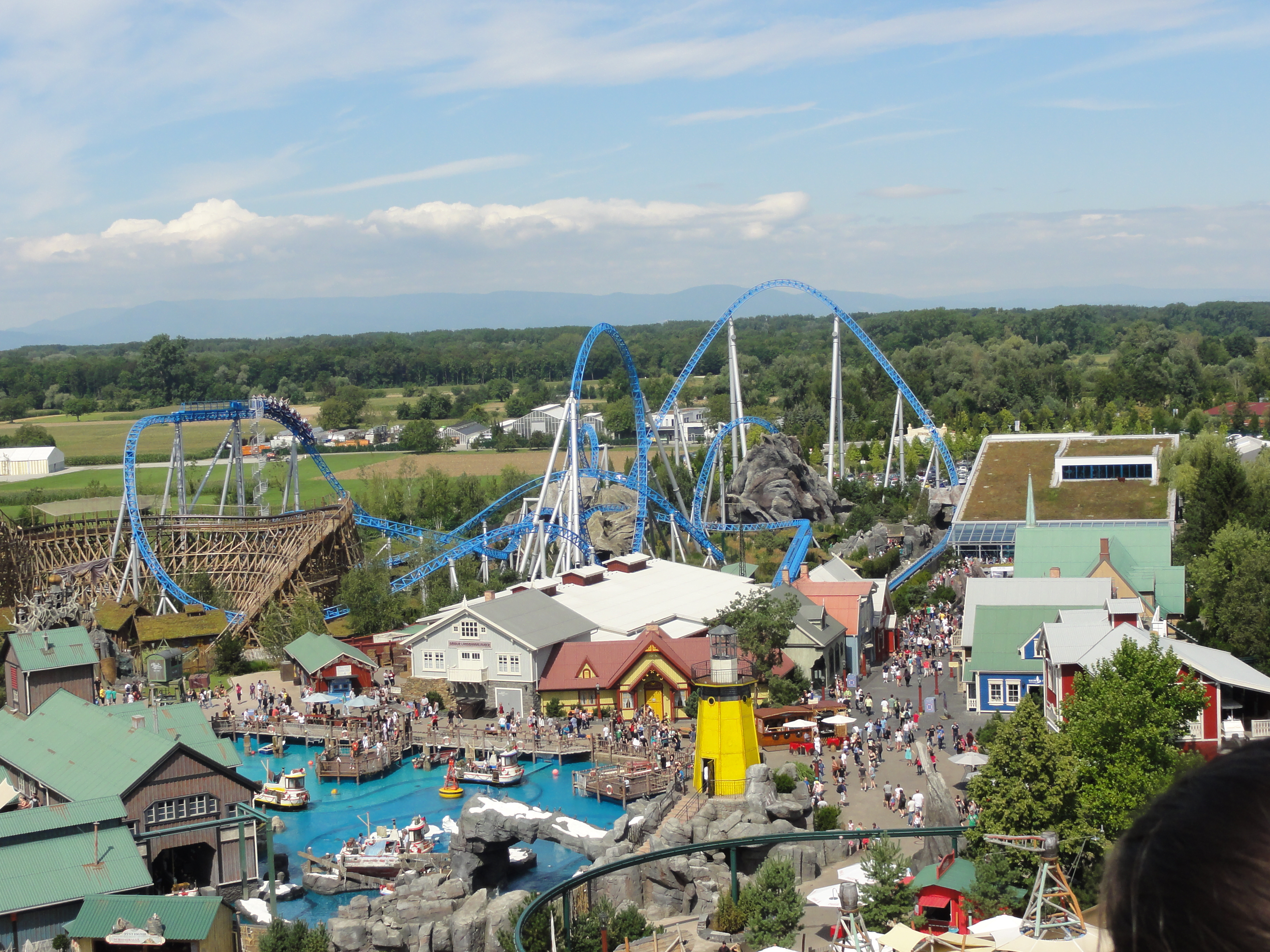 Blue Fire Megacoaster, Europa-Park, Rust, Baden-Württemberg, Germany.